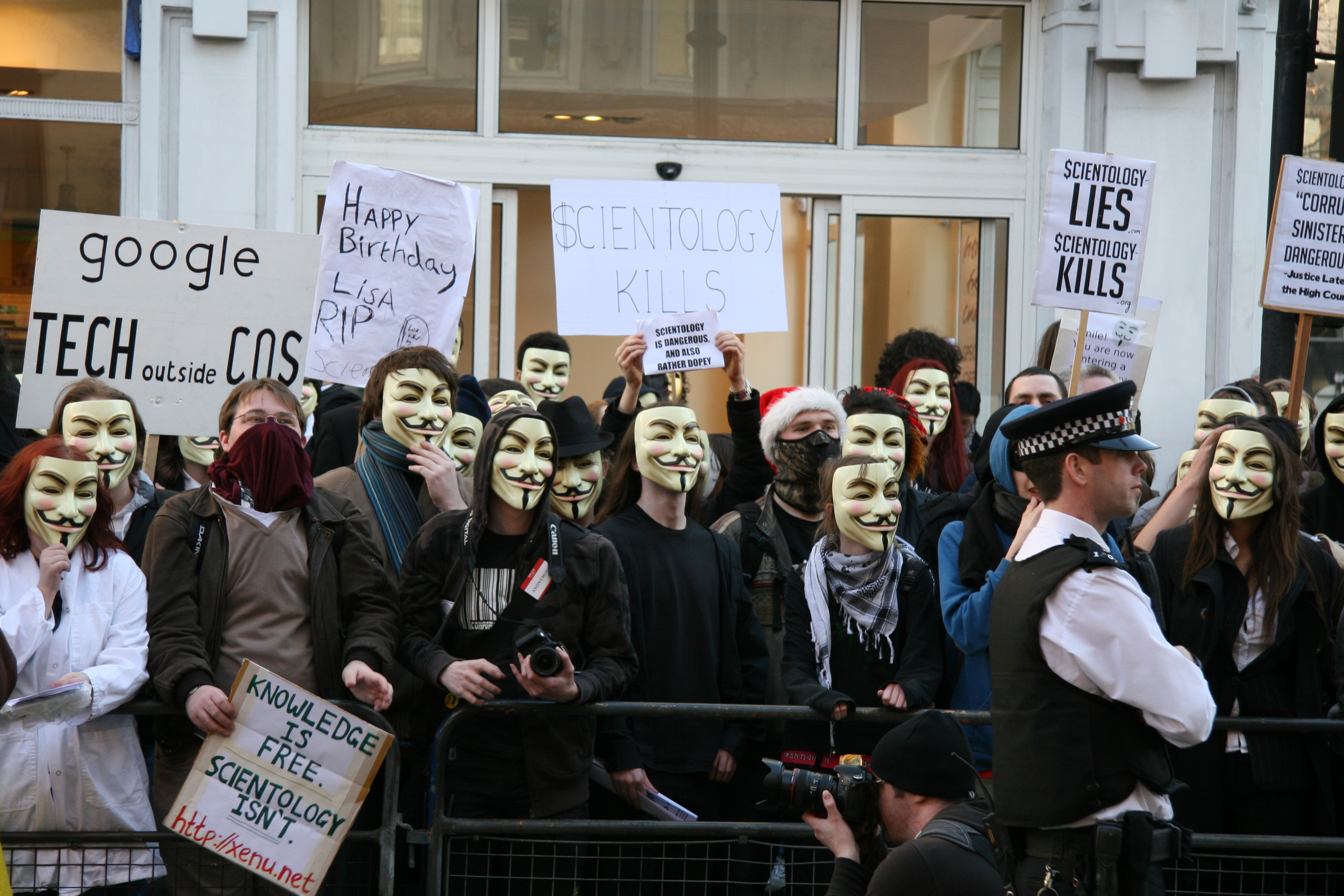 February 10th Anonymous Protests: Protesters